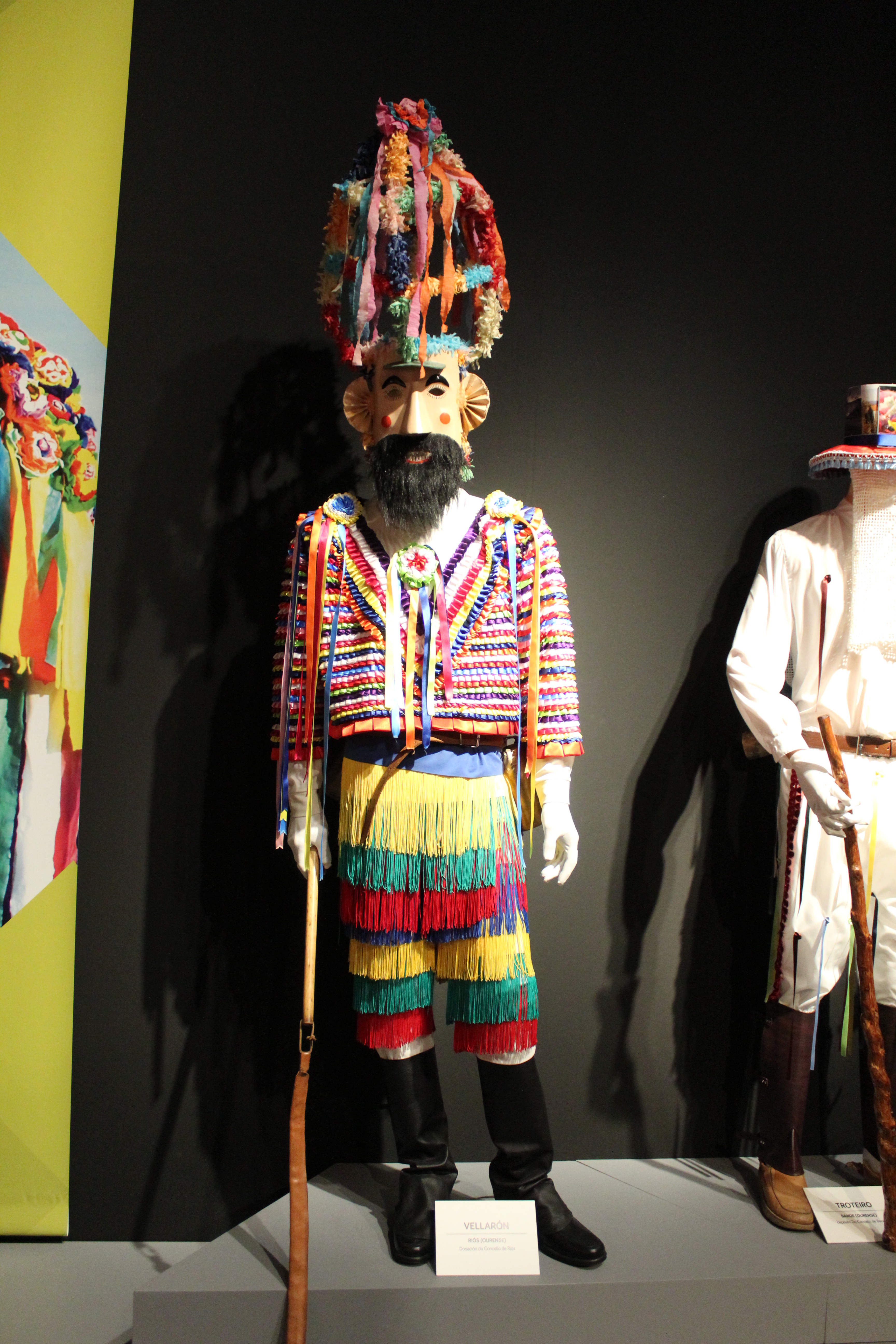 Traxe típico do Entroido de Riós